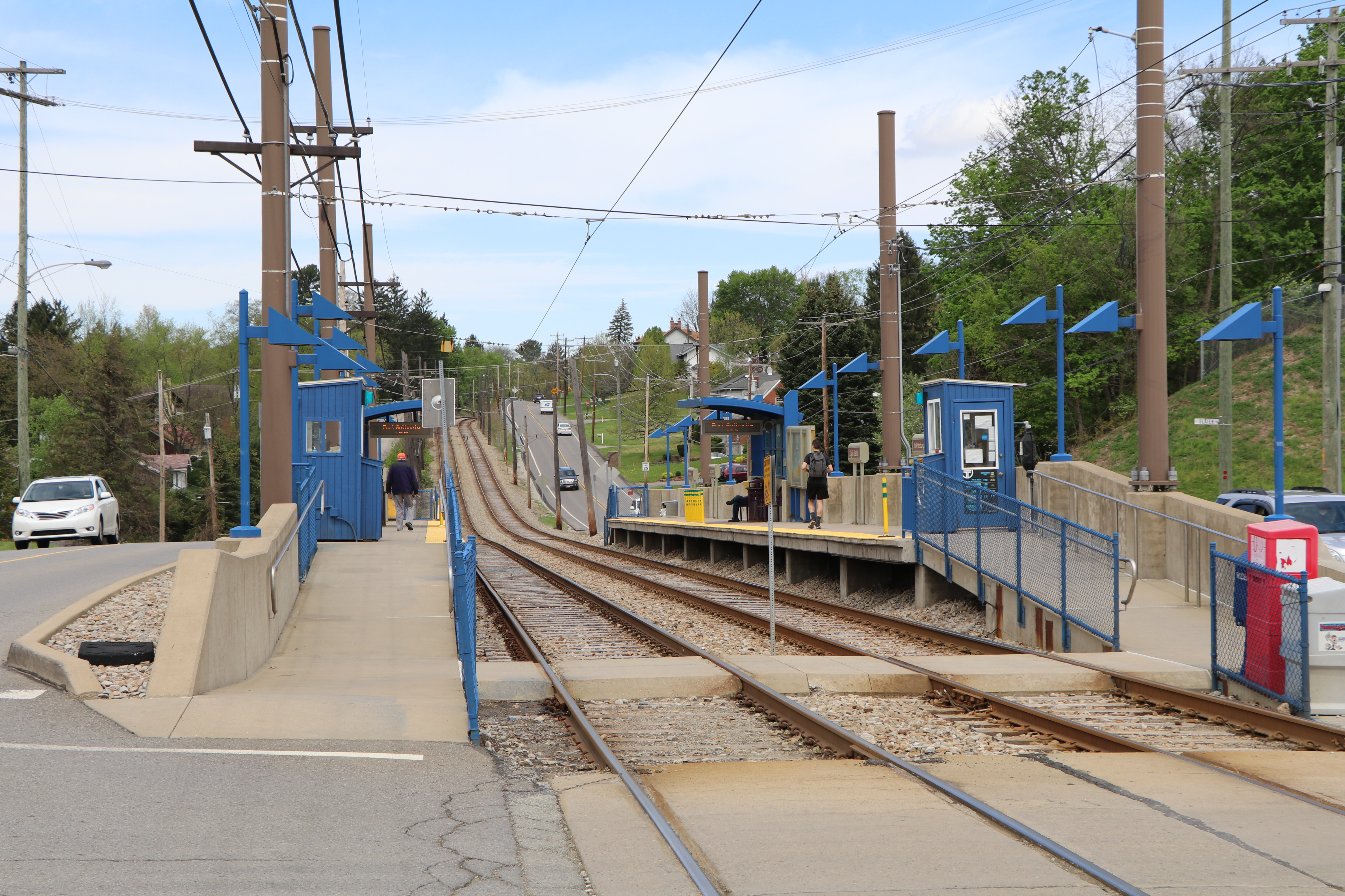 Lytle station on the Blue Line, Bethel Park, PA. View looking north, with the inbound platform on the right.